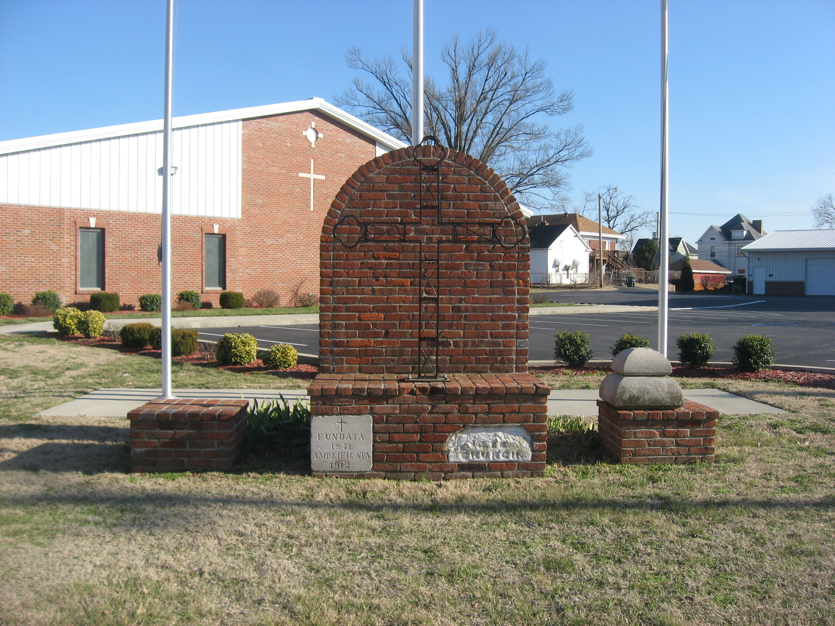 Memorial to the demolished St. Joseph's Catholic Church, located at the site of the church on the southeastern corner of the junction of Fourth (Kentucky Route 2262) and Clay Streets in Owensboro, Kentucky, United States. Built in 1878, it was listed on the National Register of Historic Places in 1983, and it has not yet been removed despite its destruction.